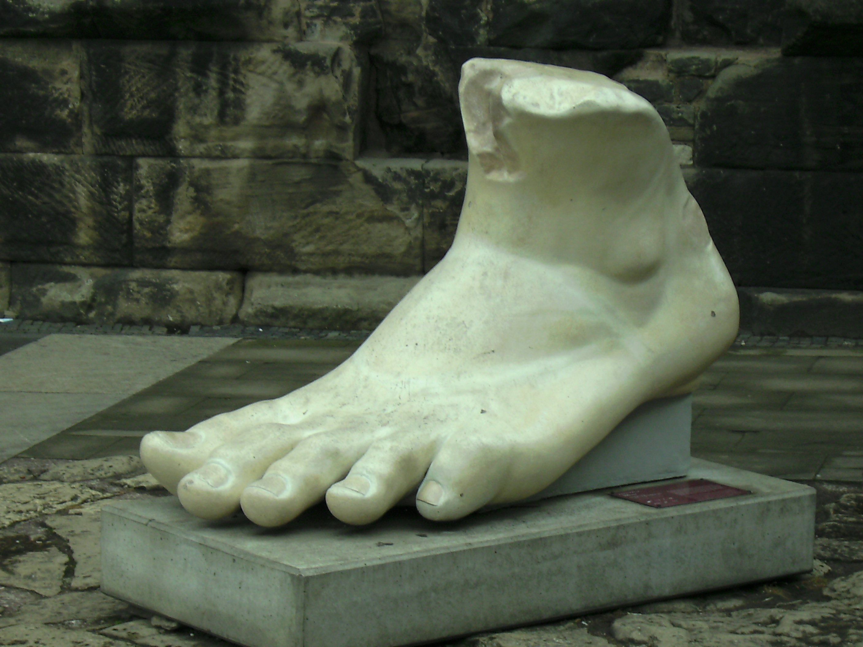 Copy of the foot of the Colossus of Constantine for an exhibition in Trier, 2007.